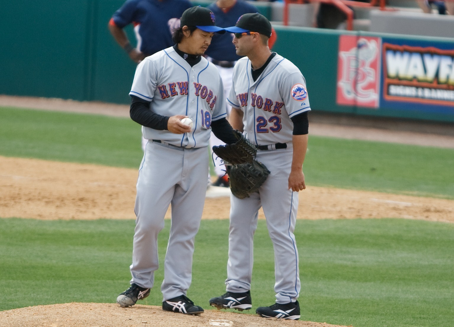 Ryota Igarashi (left) and Chris Carter.